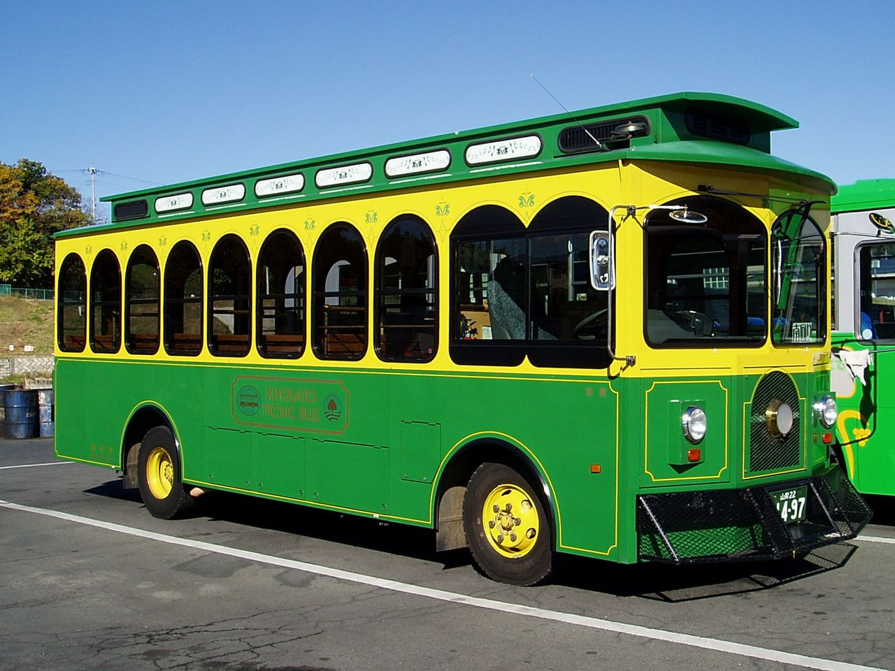 Yamanashi Kotsu "Kiyosato Picnic Bus" Hino KC-GD1JJCA 2007.11.13 Photo by Cassiopeia_sweet. This picture is obtaining and photoing permission of the persons concerned.